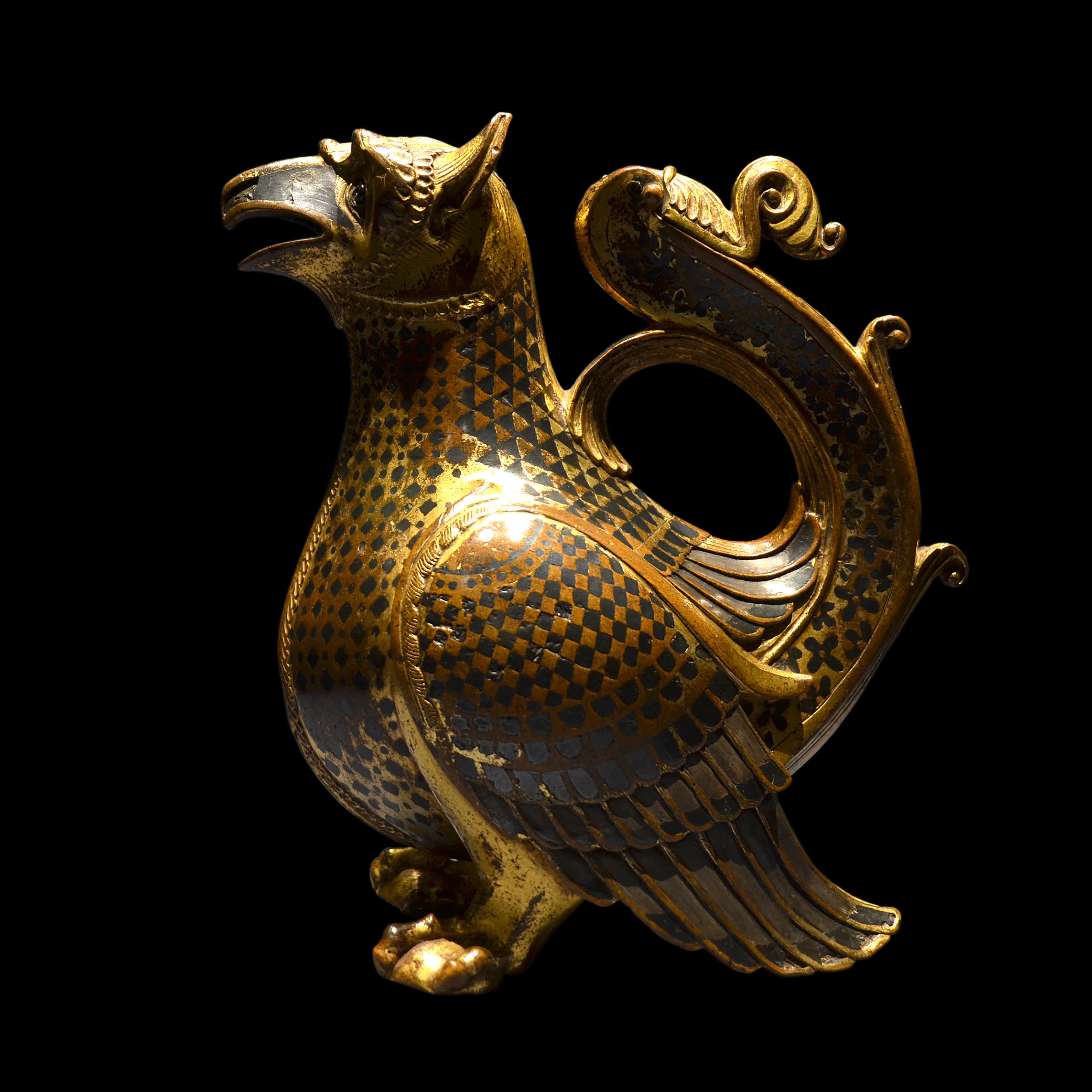 Aquamamile in the form of a griffin, Helmarshausen, 1120-1130. Gilded bronze, damascened silver, niello, garnets. Kunsthistorisches Museum of Vienna.